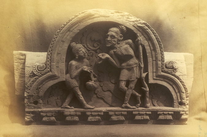 Photograph of an ancient Hindu wood carving from Kashmir Smast in Peshawar District taken by an unknown photographer in the 1880s. Peshawar is located in northern Pakistan. This plaque was found close to another plaque and together they constitute the only carved wooden pieces that had been found in the Kashmir Smast when this photograph was taken. They were discovered by Major H.A. Deane in a guano filled cave which would have provided preservative conditions. They appear to be quite ancient and are carved in a Buddhist style although they clearly depict Brahmanical themes. Burgess describes the attitudes of the two figures depicted on this plaque as "amusing". Both pieces can now be found in the British museum. Downloaded from the British Museum web site by Fowler&fowler«Talk» 17:18, 19 March 2007 (UTC)